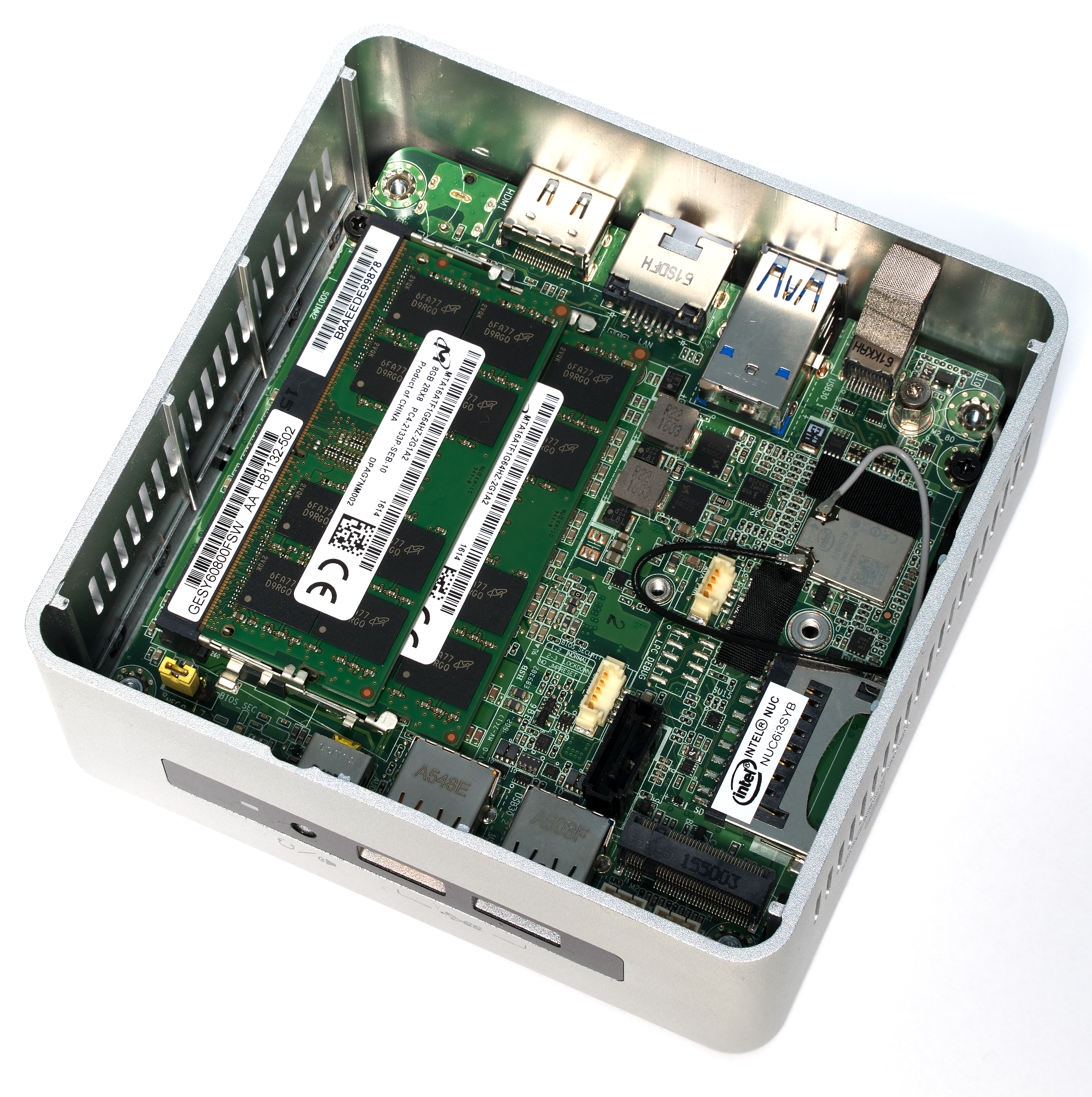 opened Intel NUC of 6th gen. Model: NUC6i3SYH Extended with two 8GB RAM modules.